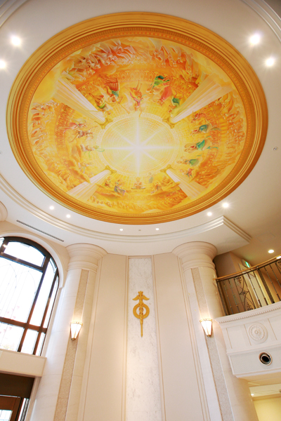 Interior of Happy Science (Kofuku no Kagaku) Osaka Temple.